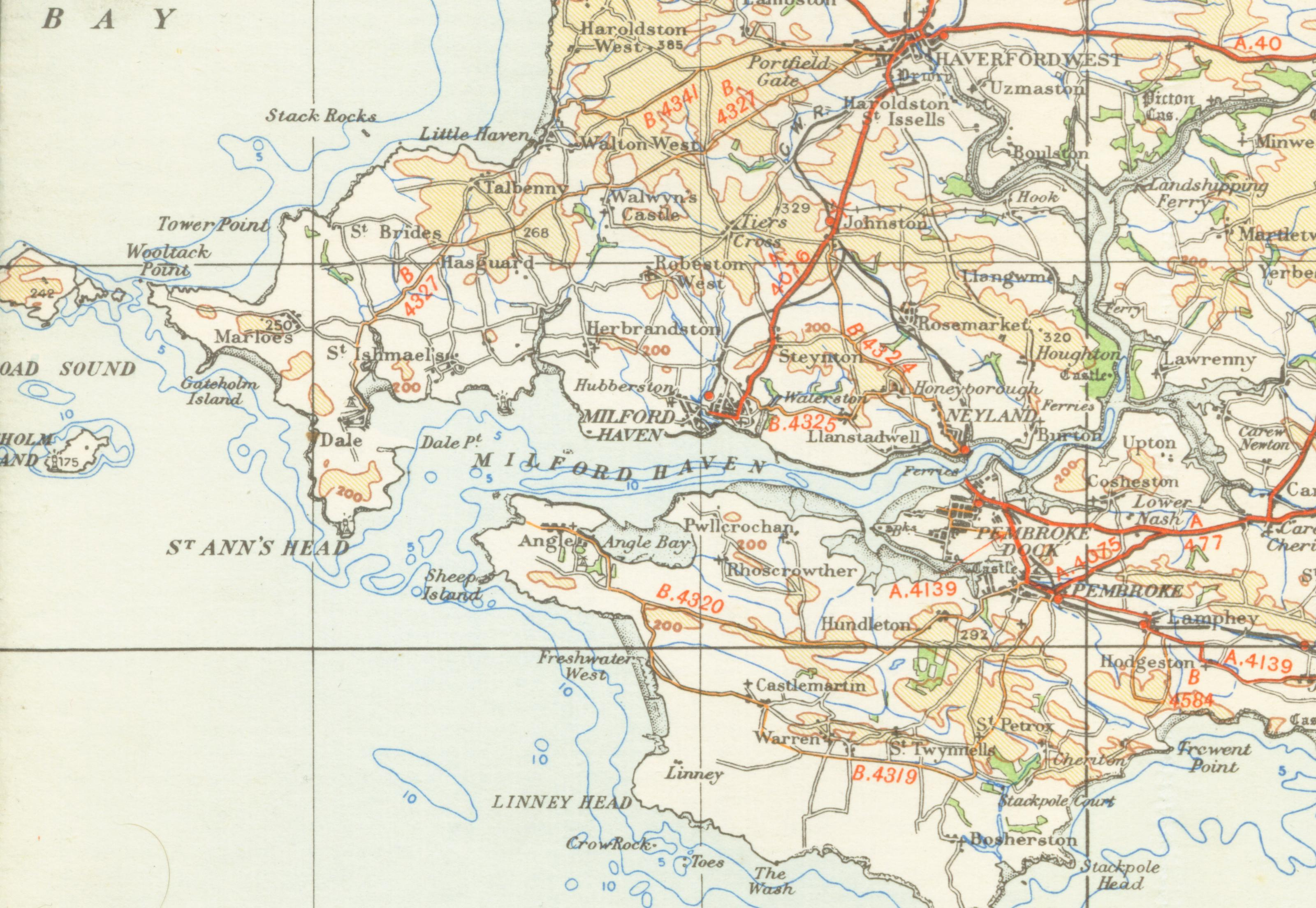 A map of Milford Haven at 1/4 inches to the mile from sheet 7 (south wales) OS map from 1946